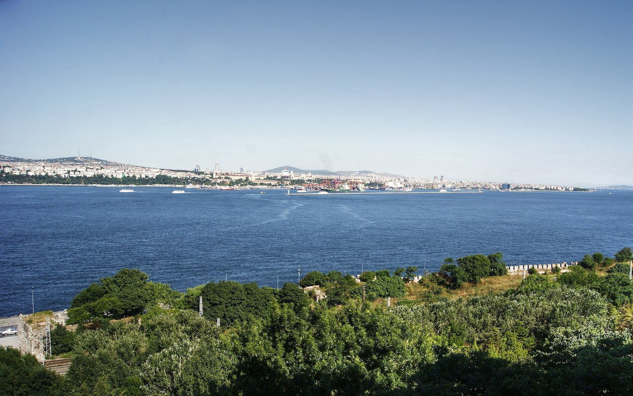 Marmara seen from Topkapi Palace (Istanbul)